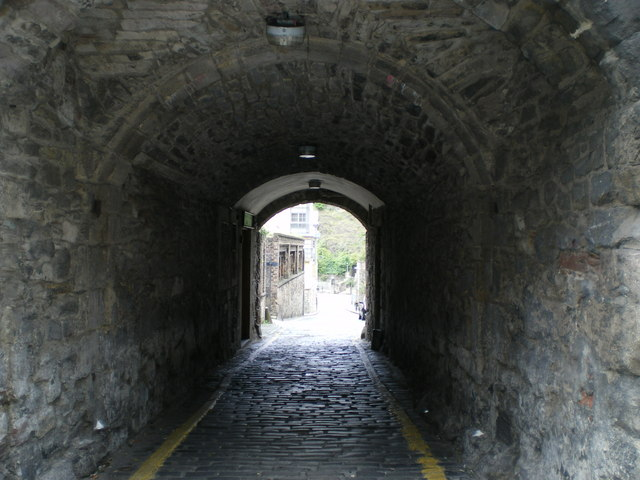 Tolbooth Wynd leads off the Royal Mile One of the narrow 'wynds' of Edinburgh, this one lies right under the Tolbooth House.